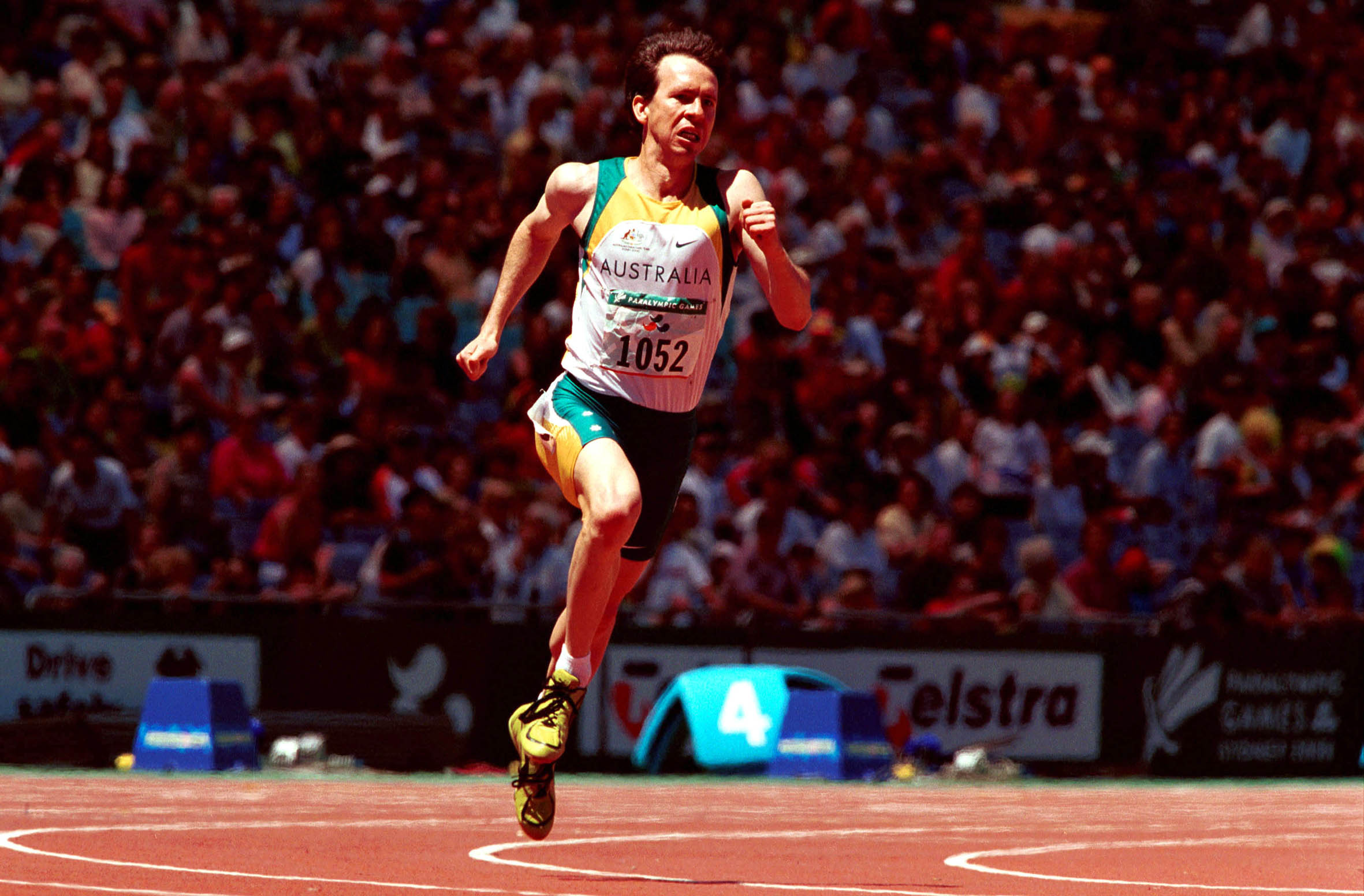 Action shot of Australian athlete Sam Rickard during track competition at the 2000 Sydney Paralympic Games, Day 07